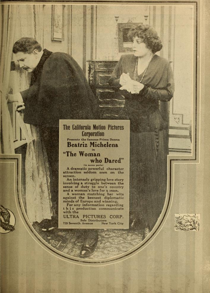 Advertisement in Moving Picture World for the film The Woman Who Dared (1916).